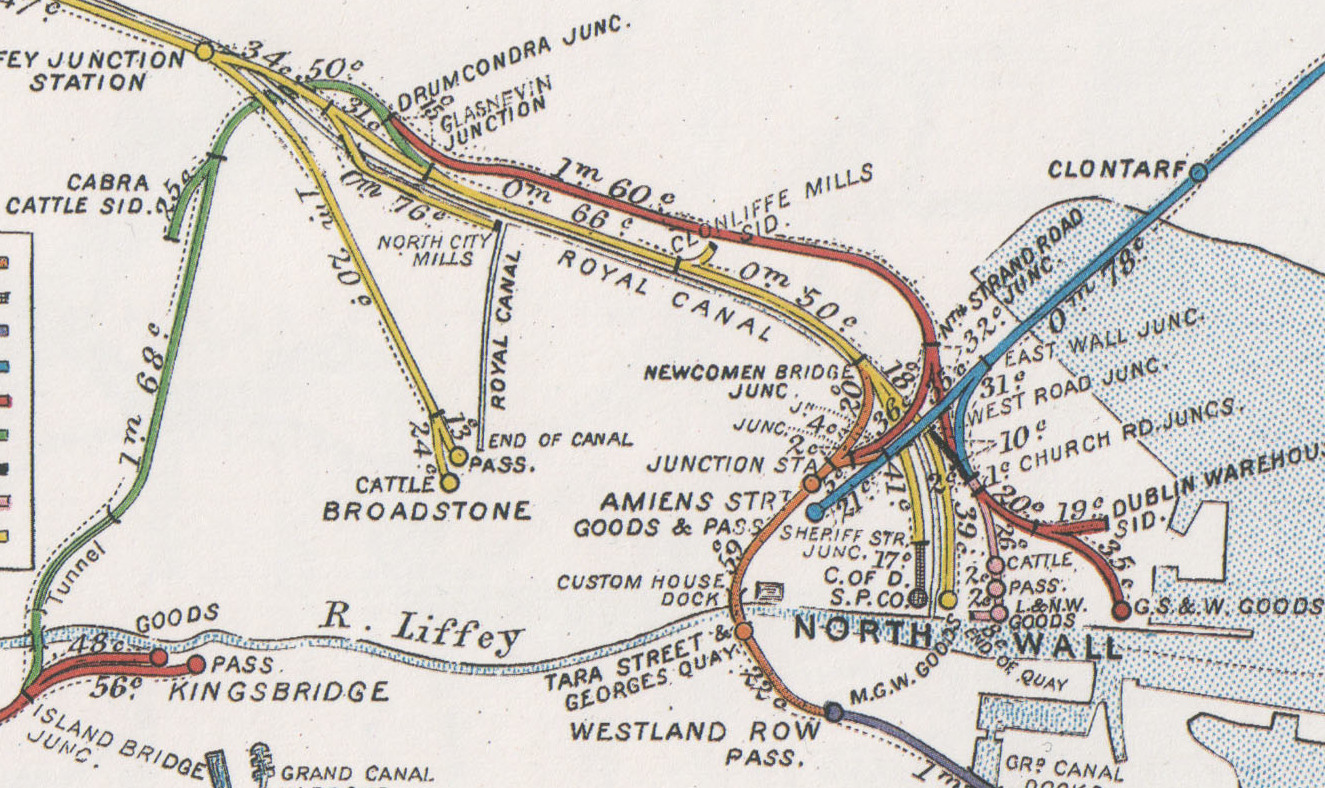 Railway Junctions in Dublin - showing all the mainlines rail systems and their termini and connections